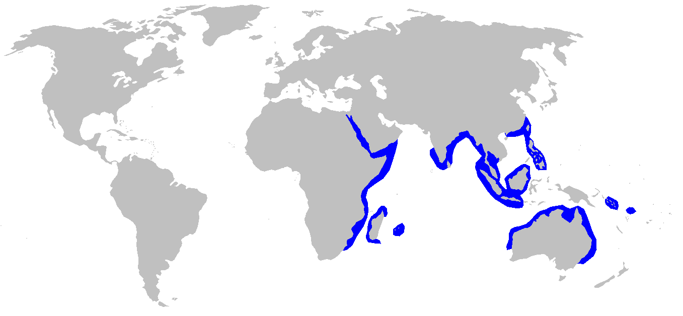 Distribution map for Carcharhinus sorrah